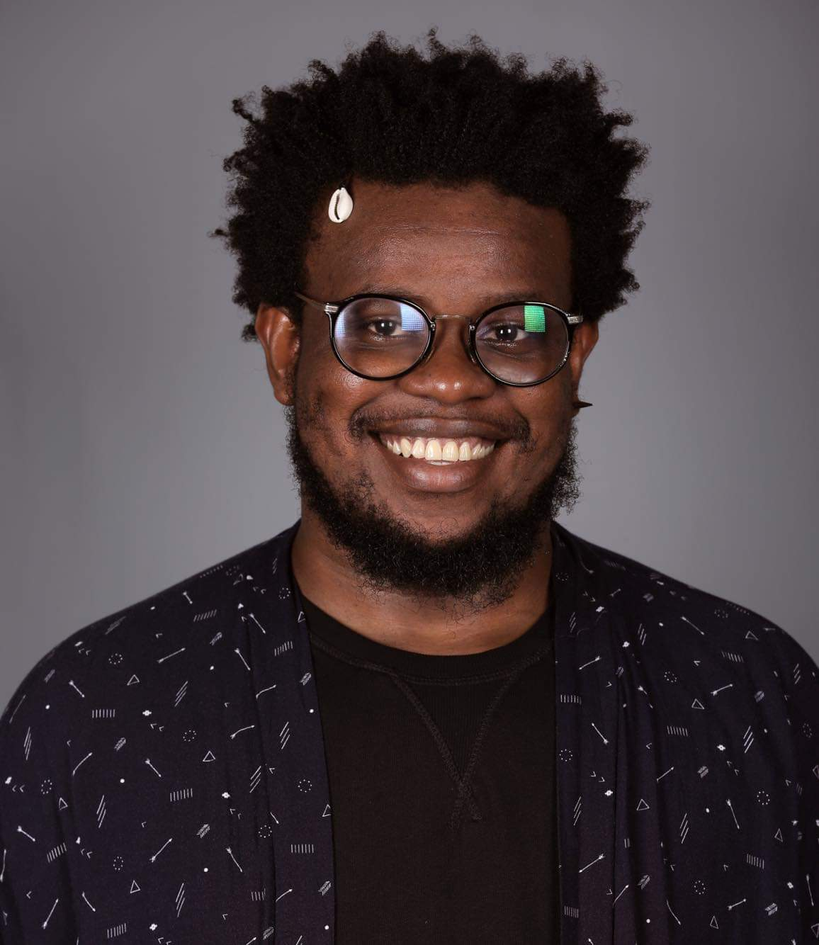 On set during his campaign photo shoot to end the SOOT in Port Harcourt.